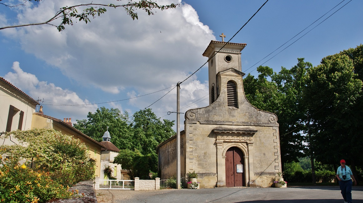 St. Martin's Church in Flaujagues, France